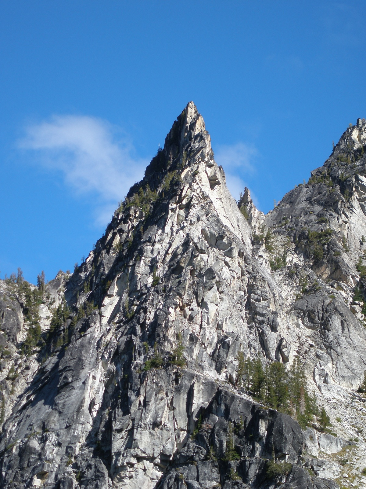 Jabberwocky Tower. Enchantments September 2007